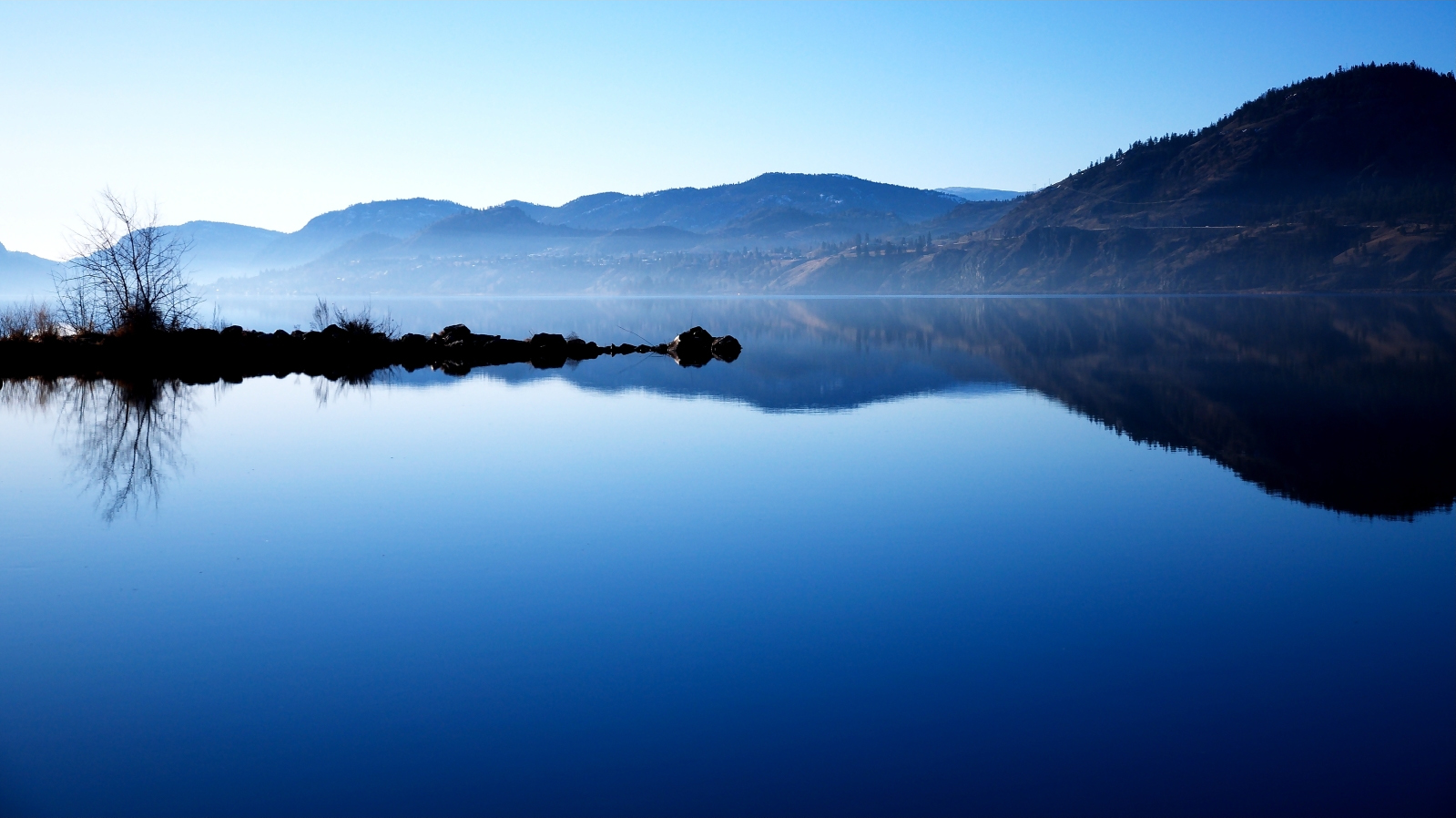 January 16, 2010. I guess today the title would be in reference to me returning home to Penticton, not that all the titles relate to the shot. I met up this morning with some nice folks from the Penticton Photography Club and we went for a walk along the River Channel. I got to the meet spot a little early, and managed to snap this shot at about 9:25 AM, with the water of Skaha Lake a sheet of glass. It's good to be home! Exposure: 0.001 sec (1/1250) Aperture: f/4.8 Focal Length: 40 mm